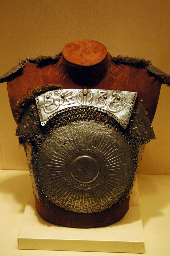 Antique Ottoman Empire mirror armour (krug), a distinctively Ottoman protection consisting of large steel plates connected by mail:BACKPLATE, XV-XVI century Turkish, Iron, silk; of center disc (minimum) 10 7/8 in. ( 27.61 cm) of center disc (maximum) 11 1/8 in. ( 28.24 cm) The Metropolitan Museum of Art, New York, Bequest of George C. Stone, 1935 (36.25.345)